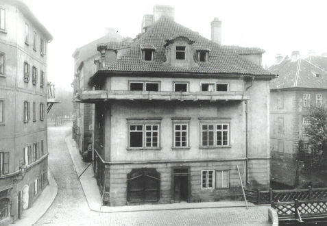 House U Tří měsíců (number 84) in Prague (Malá Strana), destroyed in 1905.